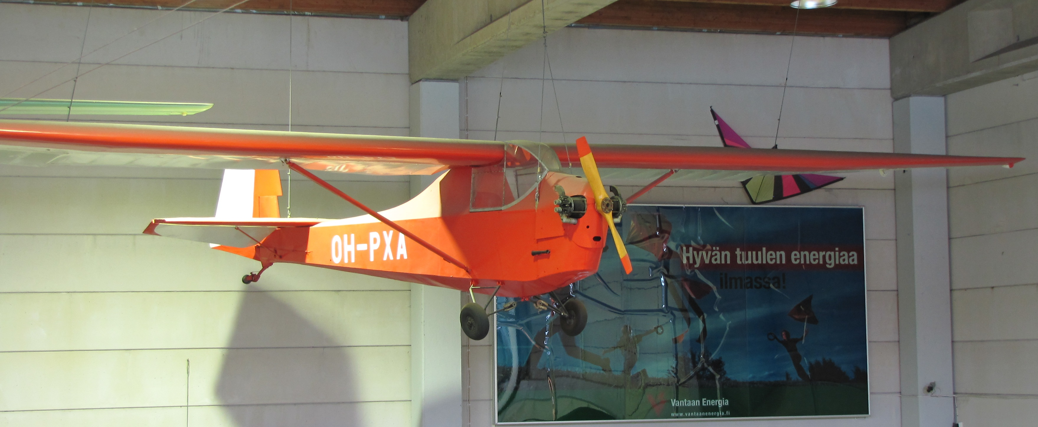 PIK-10 Moottoribaby "Paukkulauta" in Finnish Aviation Museum. The first single-seat motorglider designed in Finland by modifying an existing Grunau Baby II (original registration OH-BAB). The only prototype was used between 1949-1969.